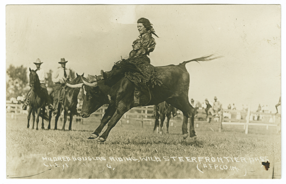 Title: Mildred Douglas Riding Wild Steer Date: ca. 1917 Part Of: of cowgirl postcards/mode/exact Place: Cheyenne, Wyoming Physical Description: 1 photographic print (postcard): black and white File: ag1986_0585_56c.tif Rights: Please cite DeGolyer Library, Southern Methodist University when using this file. A high-resolution version of this file may be obtained for a fee. For details see the web page. For other information, . For more information and to view the image in high resolution, View the